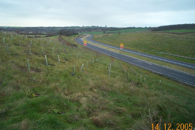 Oakley: A6 Clapham Bypass. The massed ranks of planted saplings stand guard on both sides of this new road, which was not shown on the OS mapping at the time of writing. This view was taken looking north eastwards from the Highfield Road overbridge, Oakley.